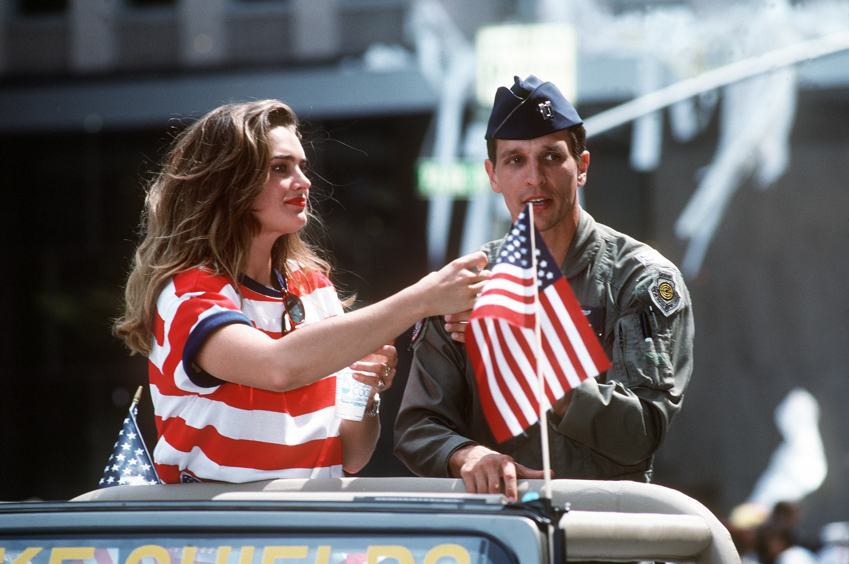 Actress Brooke Shields and Air Force pilot CAPT. Paul Johnson ride in a parade car during the Welcome Home celebration honoring the men and women who served in Desert Storm. New York City